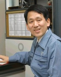 Kōichi Tanaka was inaugurated as the General Manager of the Mass Spectrometry Research Laboratory, Shimadzu Corporation on 2003.